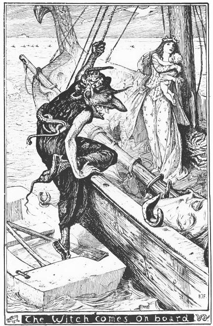 "The Witch comes on board", monogrammed illustration by H. J. Ford to Icelandic fairy tale "The Witch in the Stone Boat" (Yellow Book of Fairy Tale, 1897)